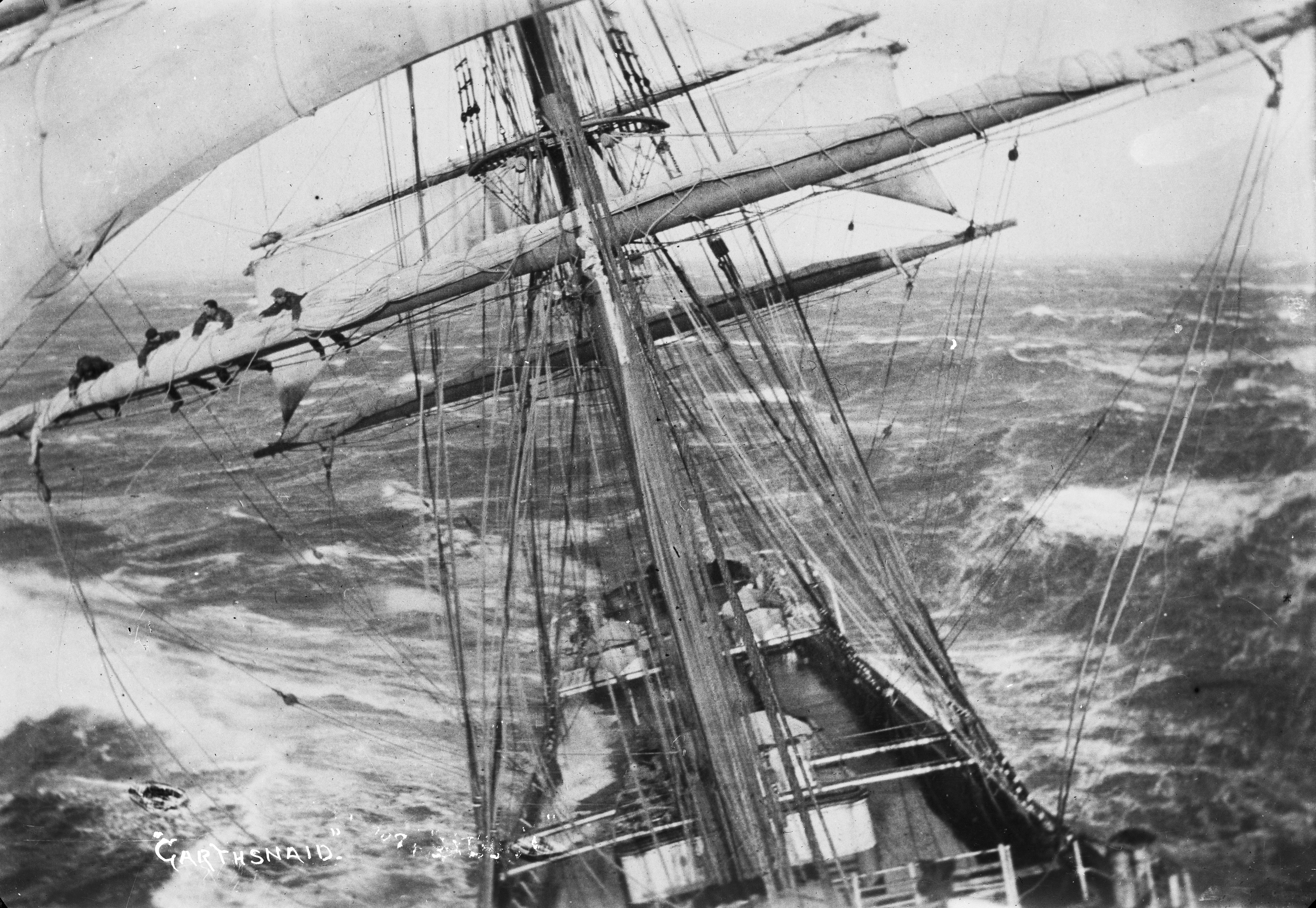 On board the ship ‚Garthsnaid‘ at sea, 1920, showing unidentified sailors securing a section of the foresail which had come free from the gaskets in heavy weather. Photographer: Alexander Harper Turner (Commander) Reference No. 1/2-014494-G Glass copy negative De Maus Collection, Alexander Turnbull Library, National Library of New Zealand see also:here and find out more about this image from the Alexander Turnbull Library.